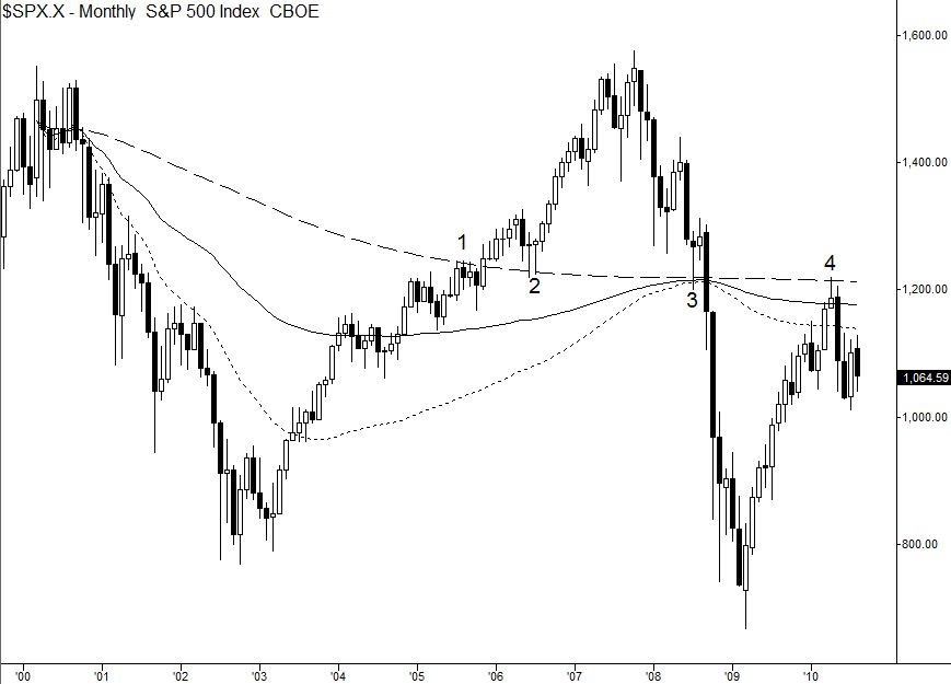 gen 5 curve